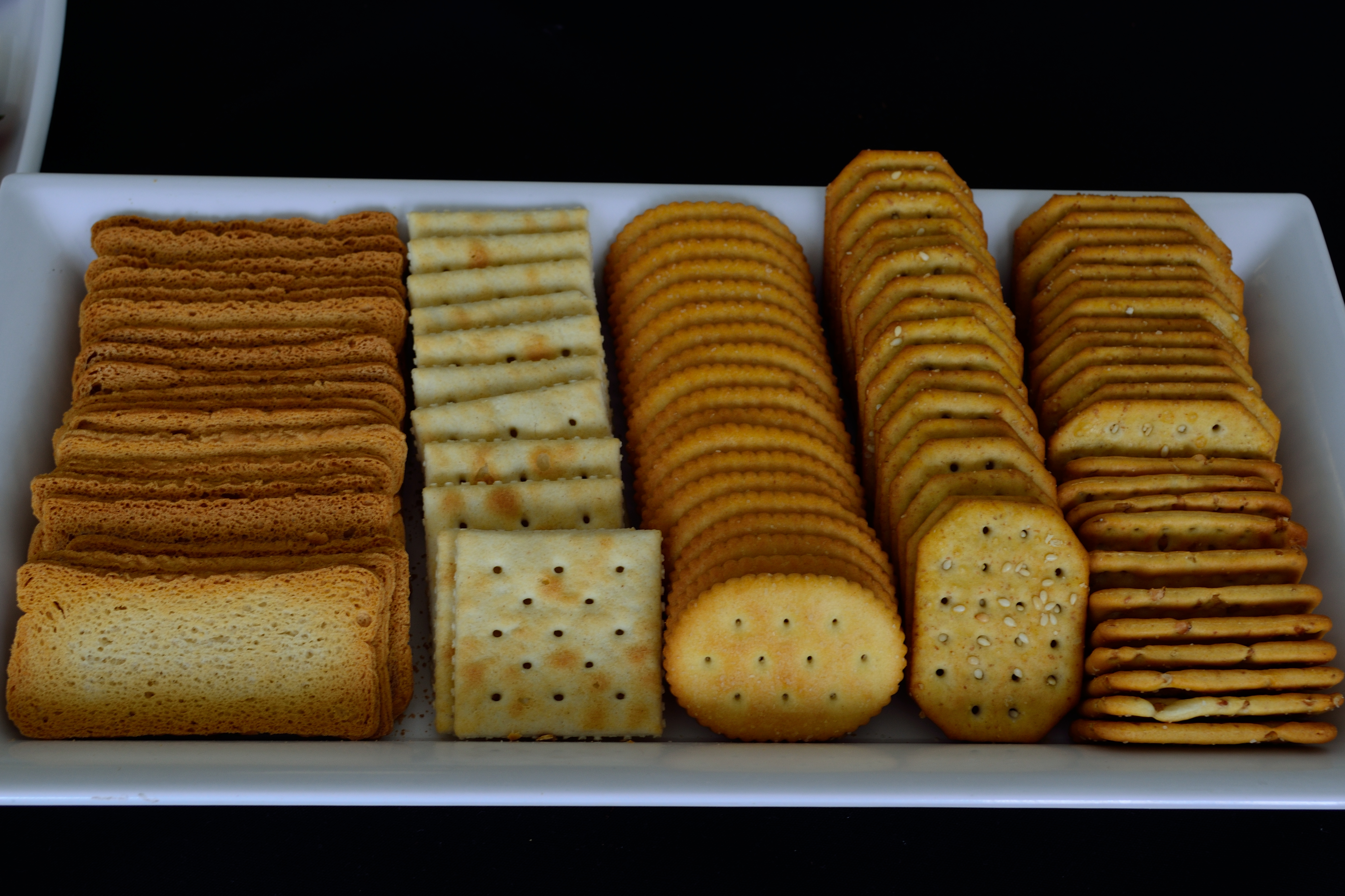 A basket of crackers